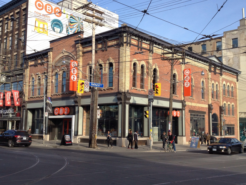 The site of a former nightclub in Toronto, known for its purple facade, now restored and converted into a CB2, a Crate & Barrel sister retail banner. Toronto, Ontario, Canada. Original caption: "The former home of the Big Bop and Reverb music clubs at Bathurst and Queen Streets in Toronto. Sure, the place was a total shit hole. But I saw many good shows there, and while I like the restoration, it pains me a bit to see the building occupied by yet another high-end furniture store catering to condo-dwelling yuppies."